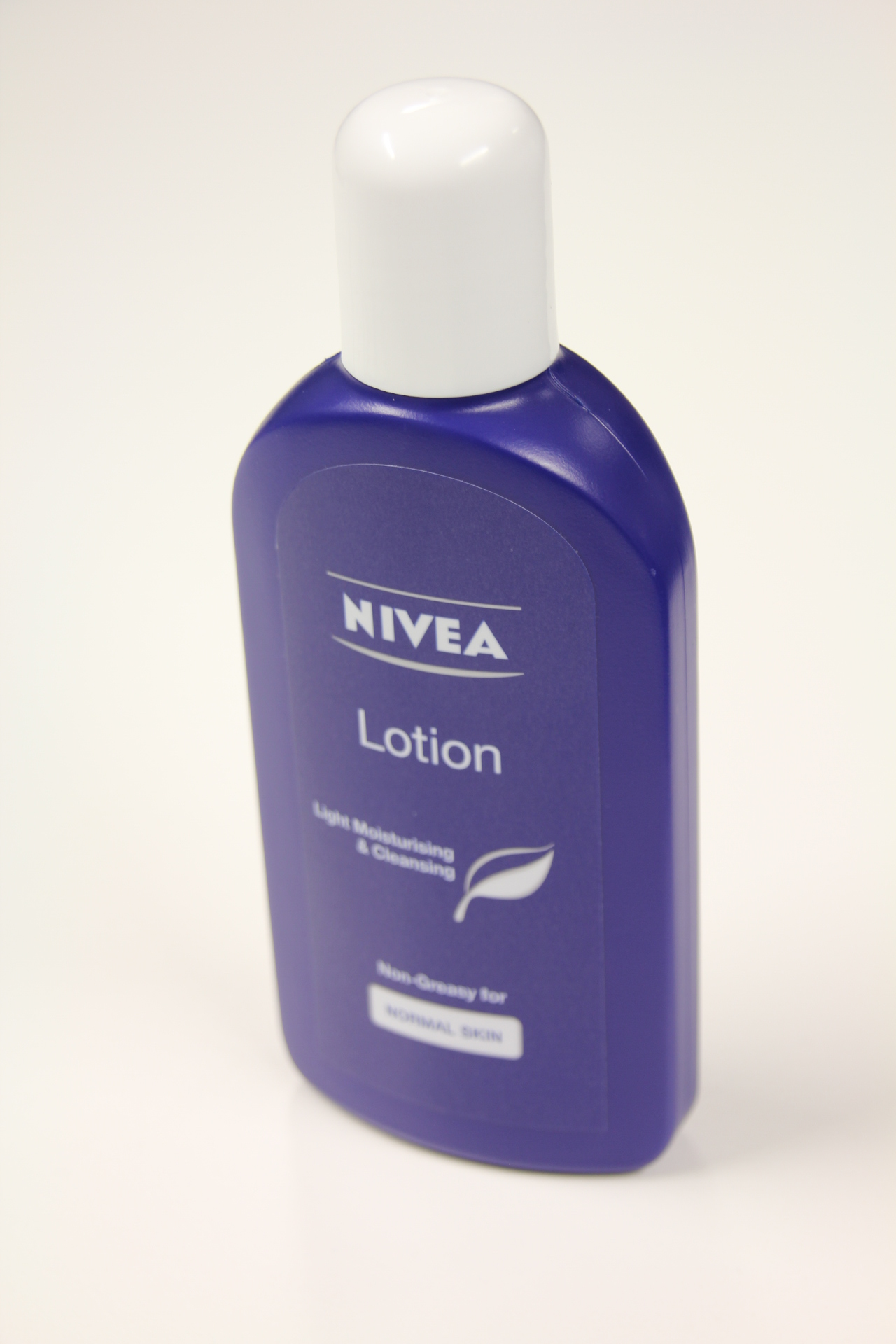 Picture of the lotion